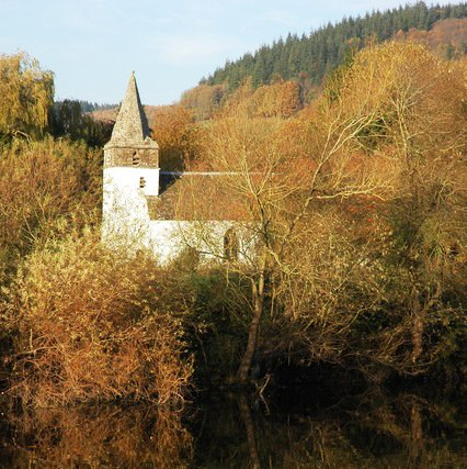 Dixton Church Square version of Dixton Church, Monmouth - .uk